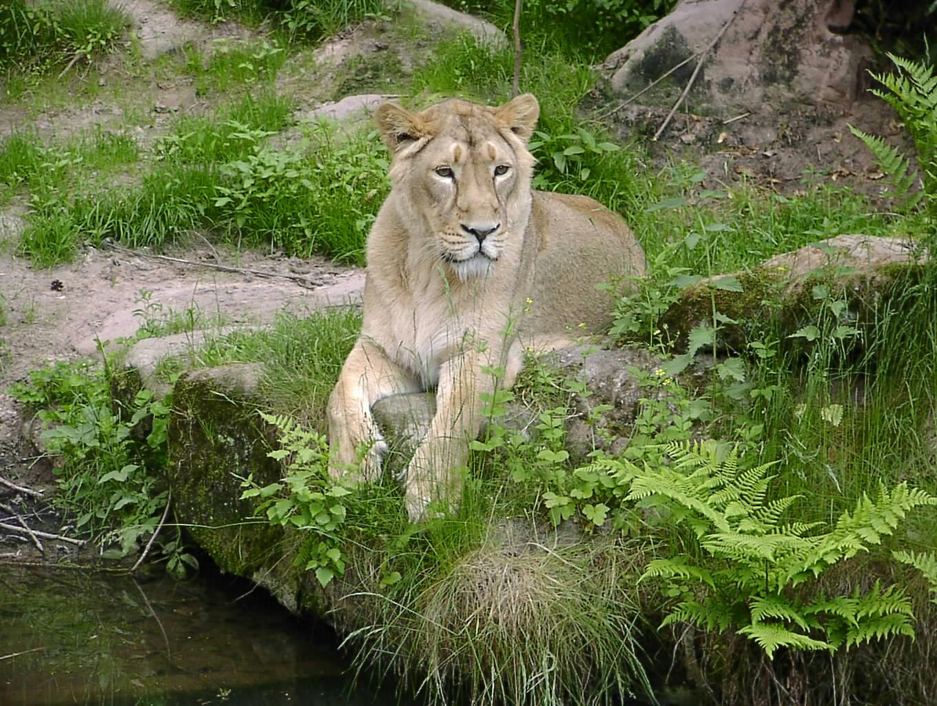 This picture shows an asian lion (female) (Panthera leo perisca).